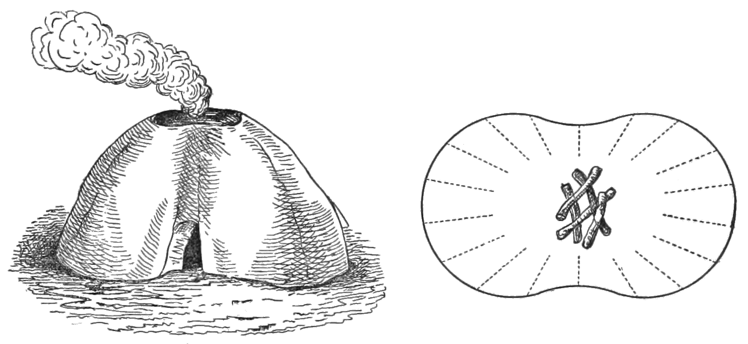 Kutchin lodge